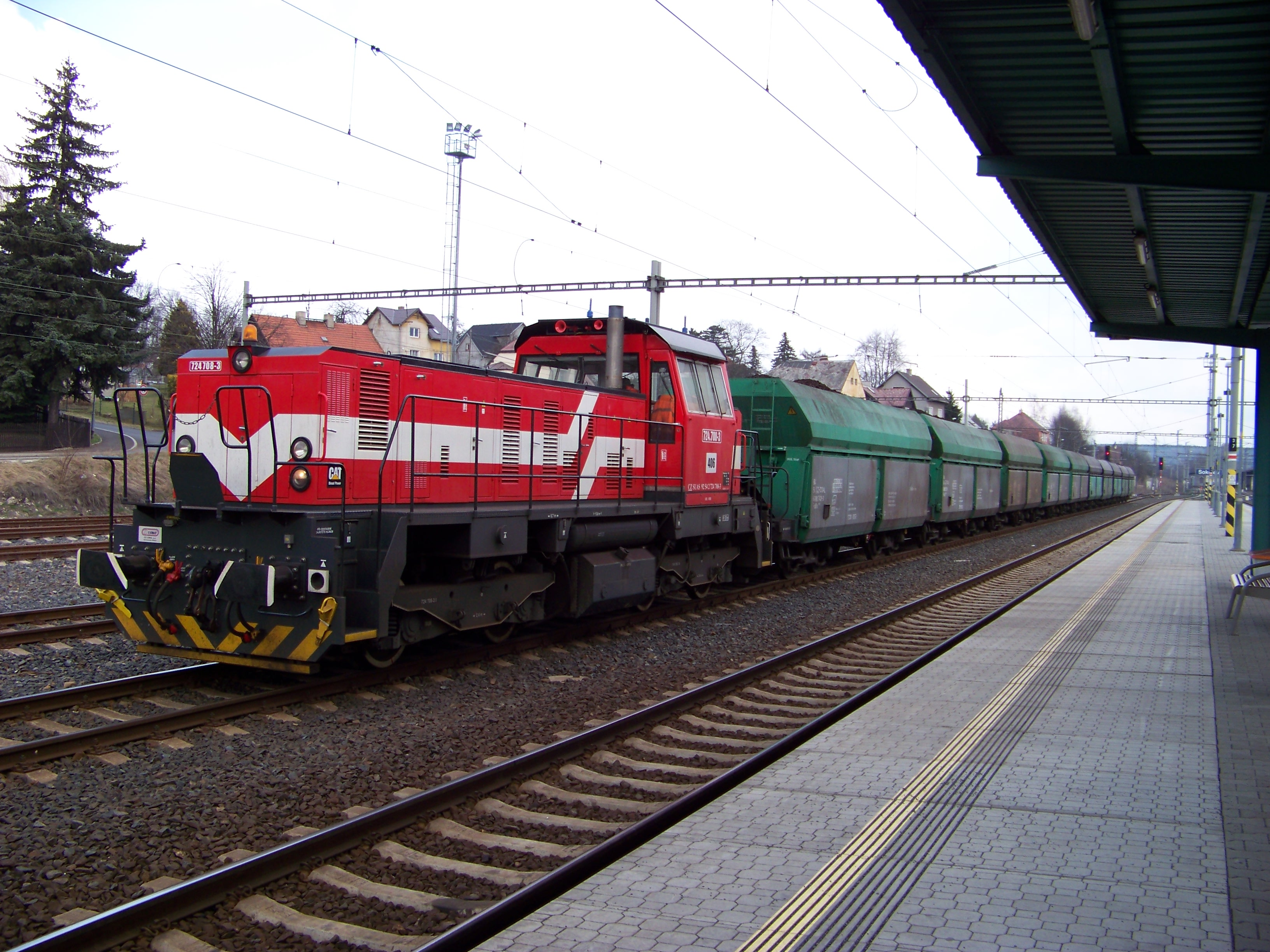 Sokolov, Sokolov District, Karlovy Vary Region, the Czech Republic. A train of Sokolovská uhelná. - OpenStreetMap(Info)